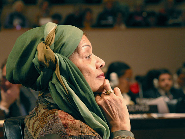 Ms. Angela King attending observance of the International Women's Day at the United Nations Headquarters in 2003. Photograph by Olga Bobrova (aka Oleyka). Ms. Angela King attending observance of the International Women's Day at the United Nations Headquarters in 2003. Photograph by Olga Bobrova (aka Oleyka).